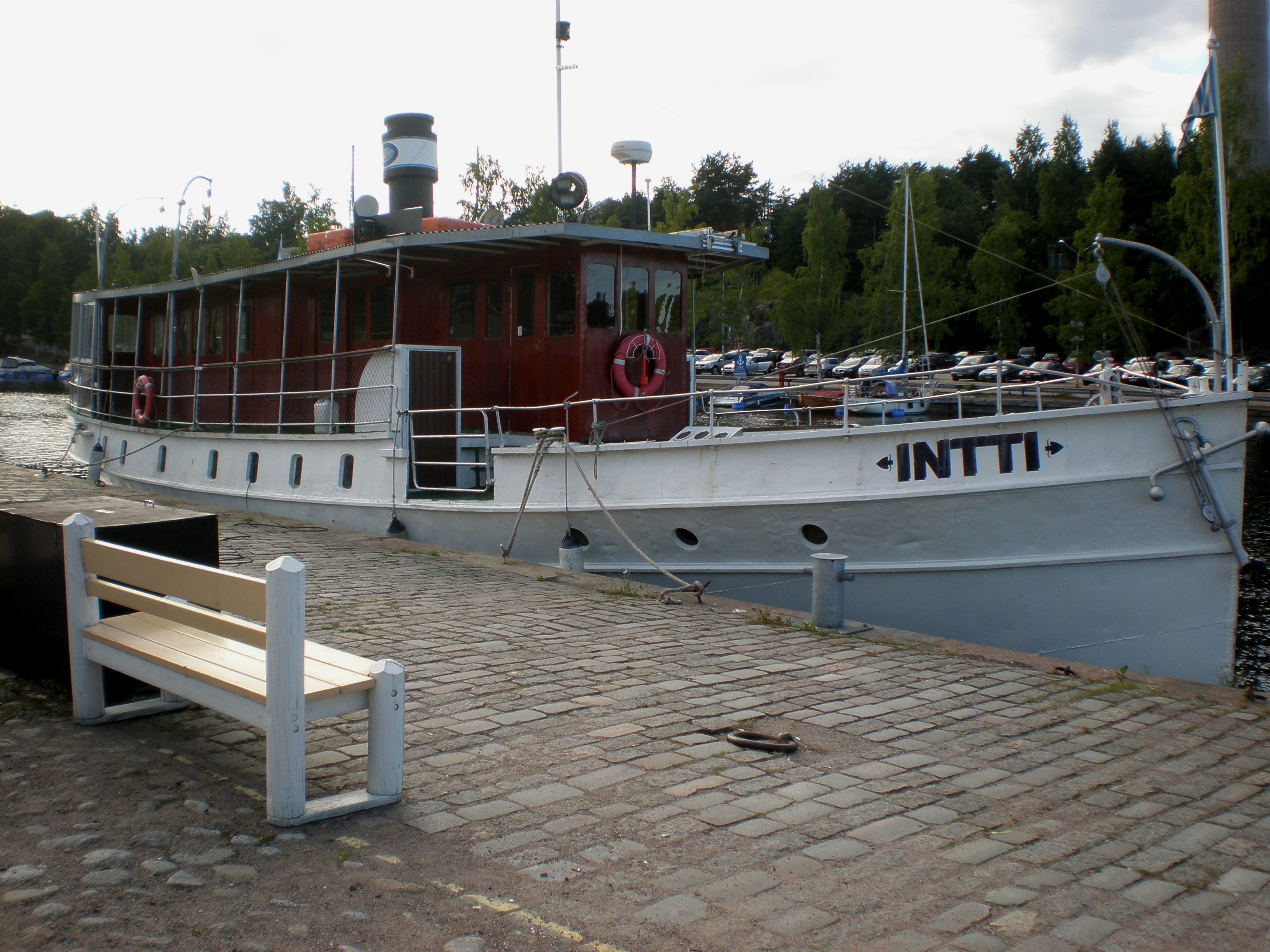 M/S Intti at Mustalahti harbour